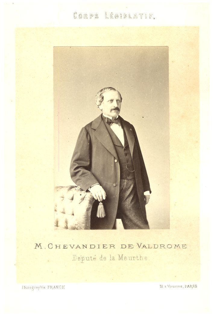 Chevandier en 1870